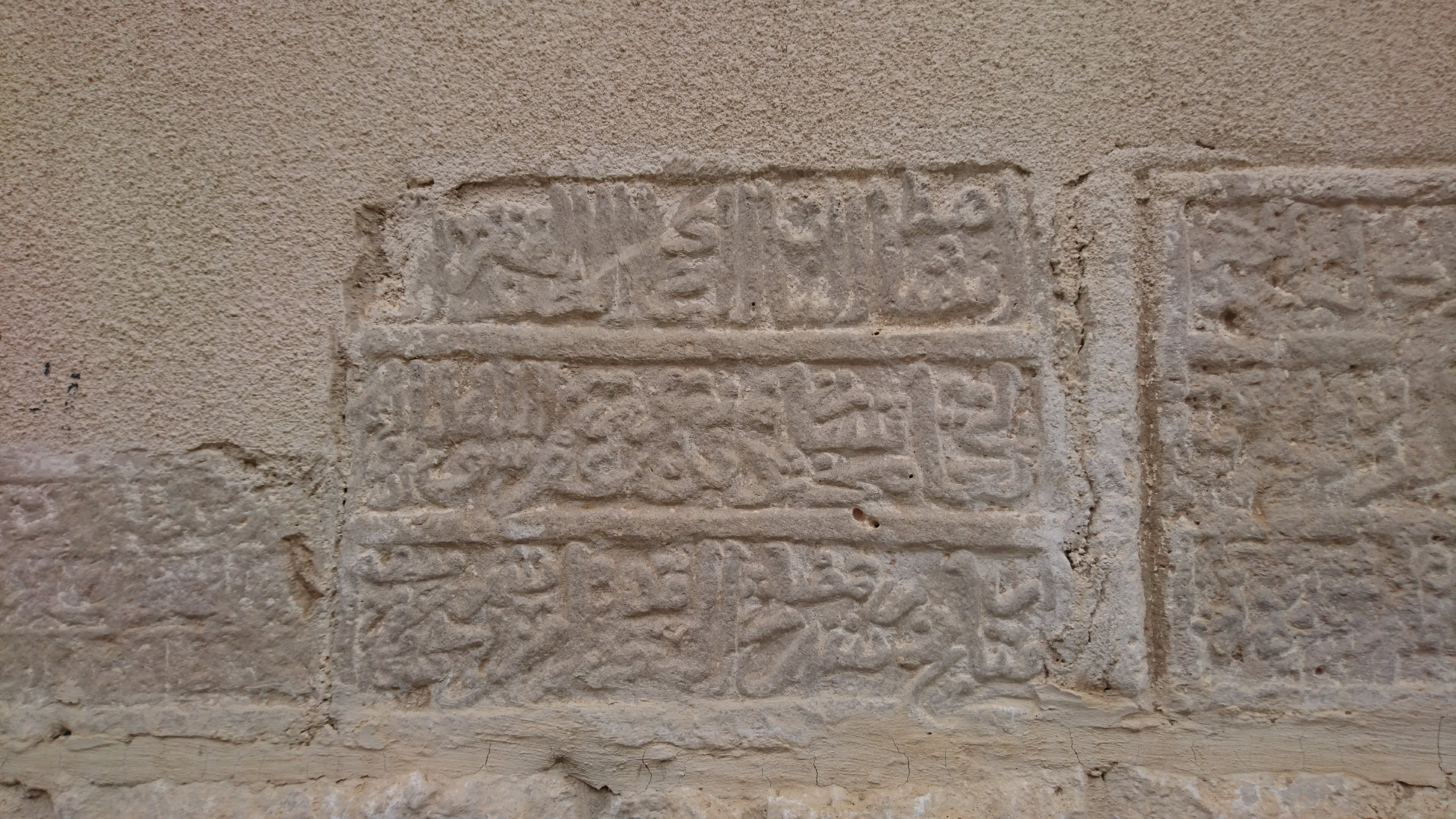 Mamluk inscriptions in Taybeh Grand Mosque, Taybeh, Irbid, Jordan.